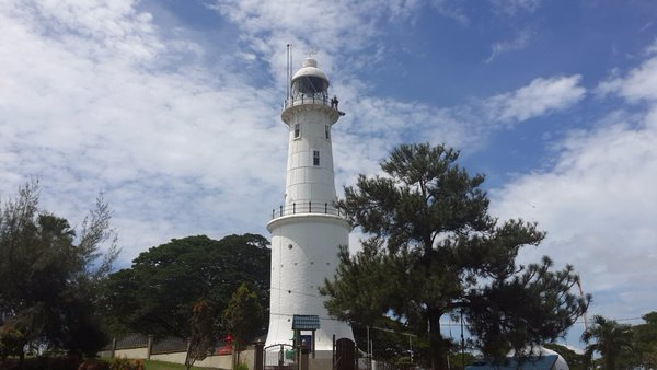 Bukit Malawati Historical Complex